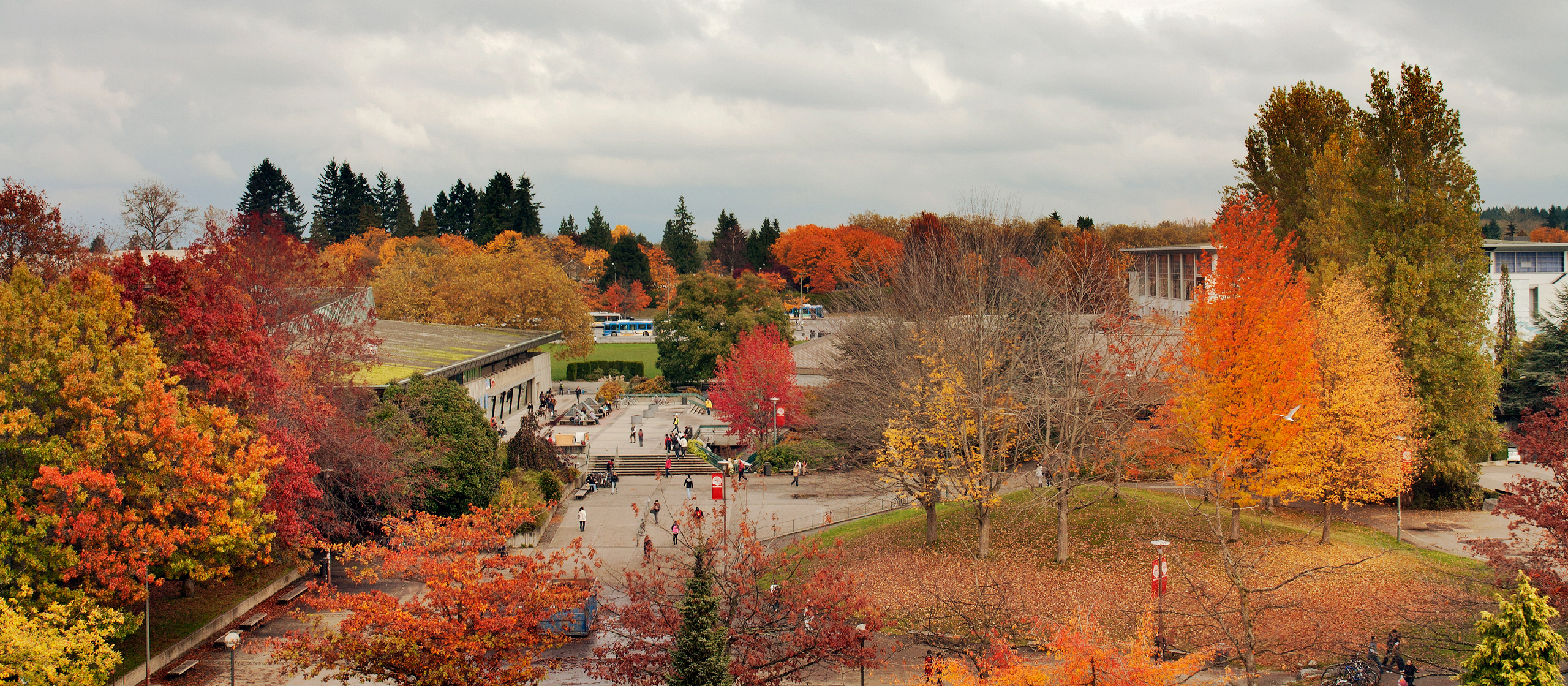 A view of the UBC campus at Point Grey in Vancouver, showing the Student Union Building on the left, the Aquatic Center in the middle, the War Memorial Gym on the right, and the bus loop in the background. Notice the foliage. Red leaves are typical of autumn.